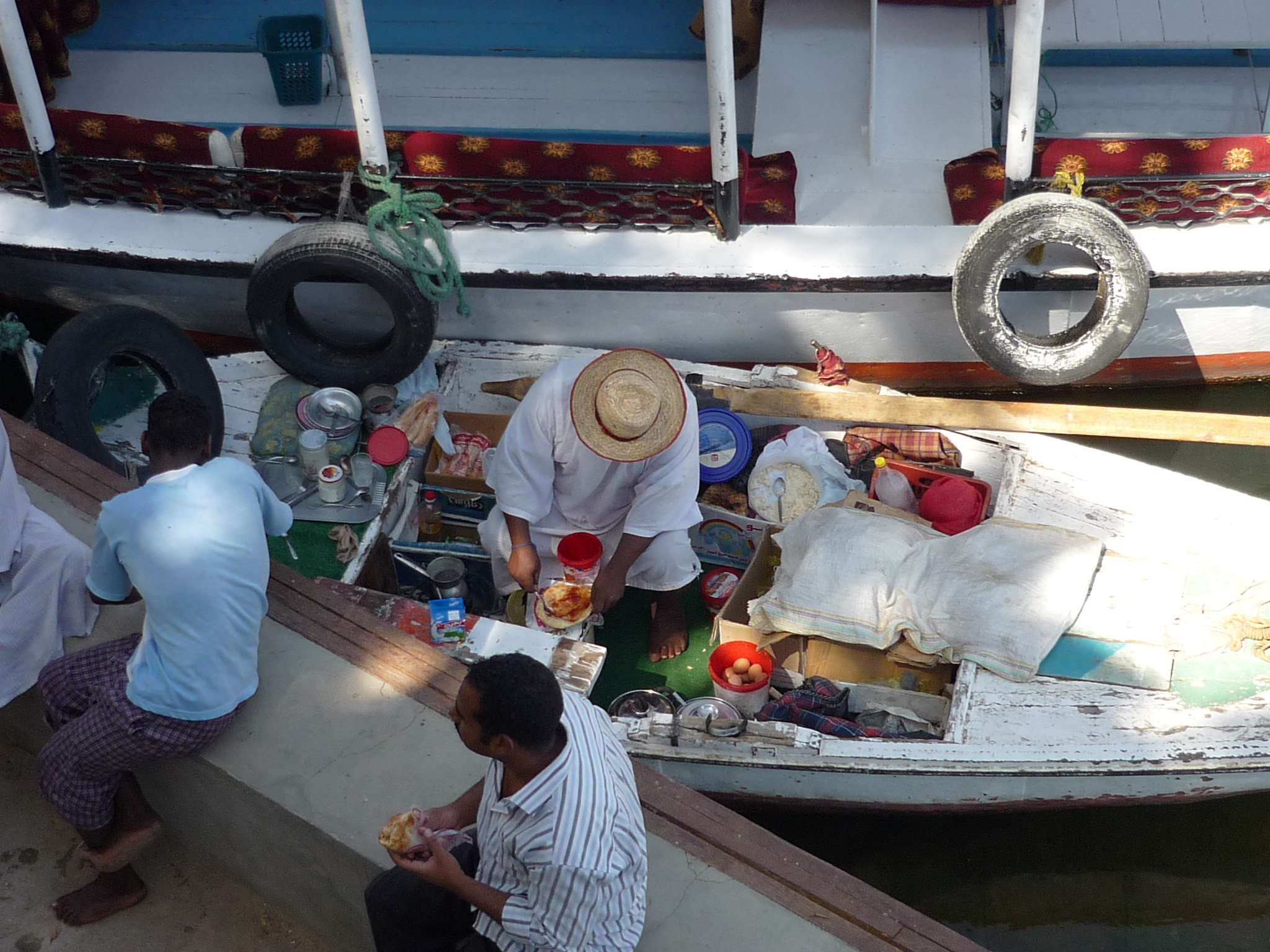 Floating kitchen, Kitchener Island, Aswan, Egypt